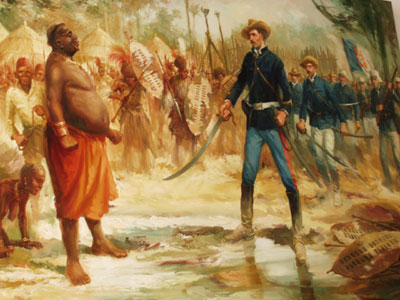 Mouzinho de Albuquerque makes Gungunhana captive. Chaimite, Gaza, Mozambique. 28 December 1895.